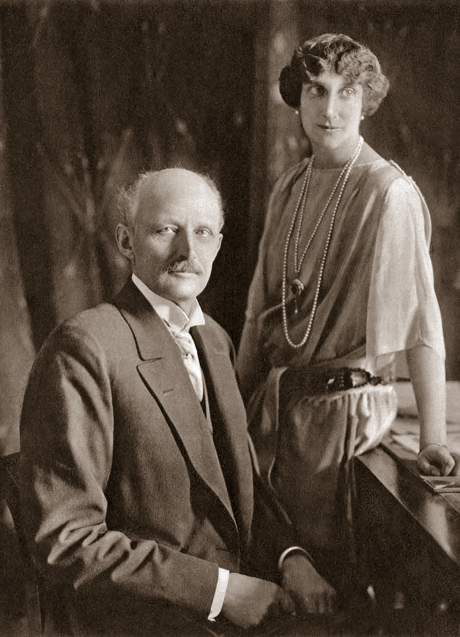 Carl, prince of Sweden (1861-1951) with his wife Ingeborg of Denmark (1878-1958)